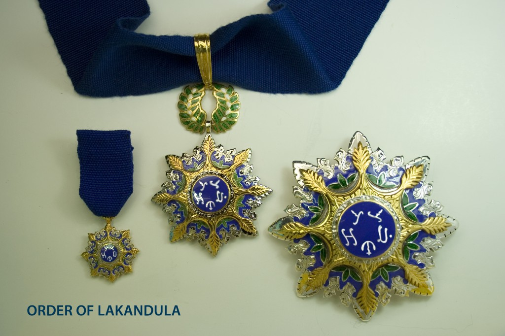 Order of Lakandula medal